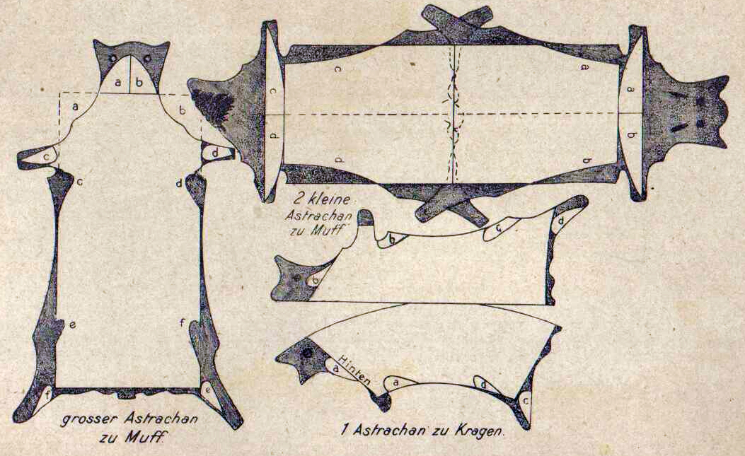 Graphics for Furriers